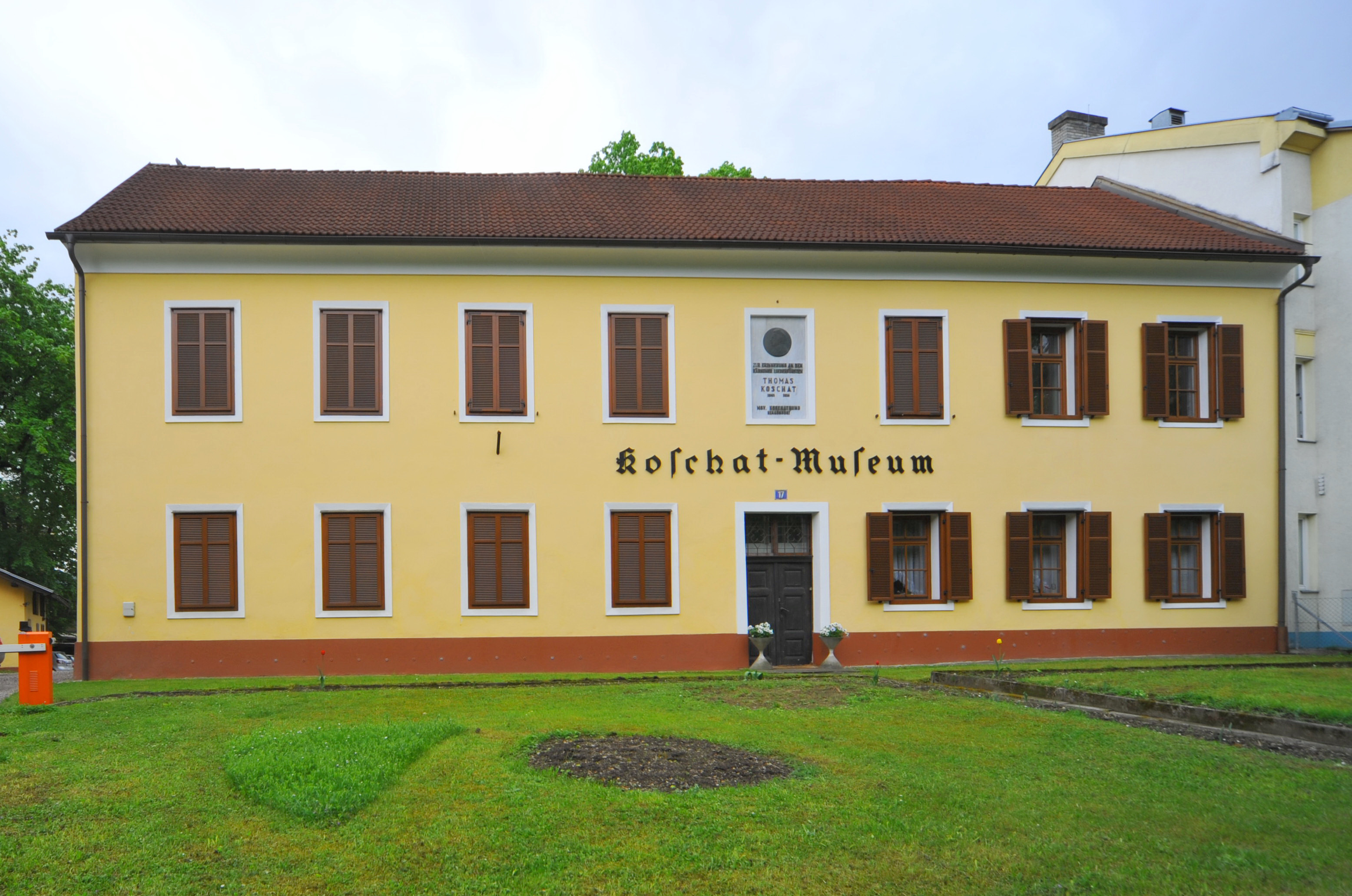 Koschatmuseum, Viktringer Ring #17, unadorned Biedermeier building, situated in the 7th district "Viktringer Vorstadt", statutary city Klagenfurt, Carinthia, Austria, EU